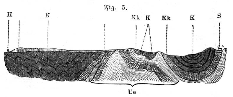 caption: "5. Das Aachener Kohlenbecken. – KKK einzelne Kohlenbecken von verschiedener Ausdehnung, rechts die Eschweiler, links die Worm-Mulde; Ue Schichtensystem des Uebergangsgebirges; Kk Kohlenkalk; S Stollberg; H Herzogenwerth."